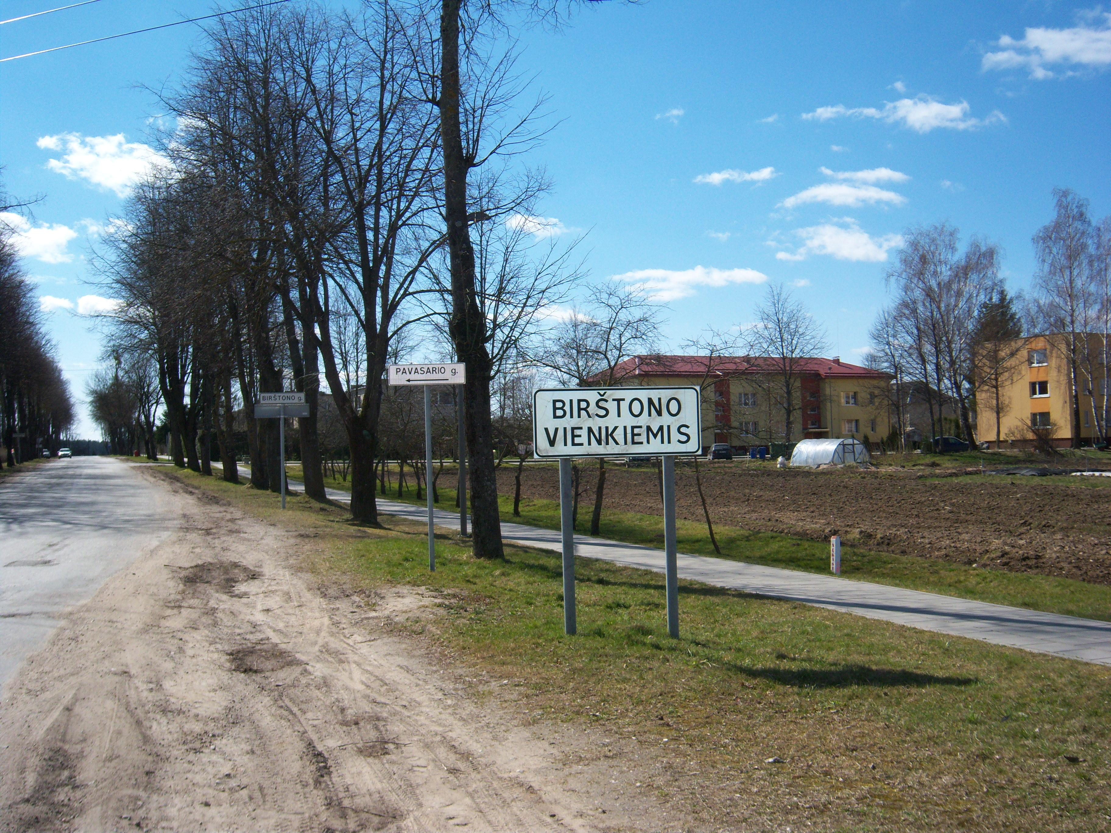 Birštono Vienkiemis, Birštonas Municipality, Lithuania